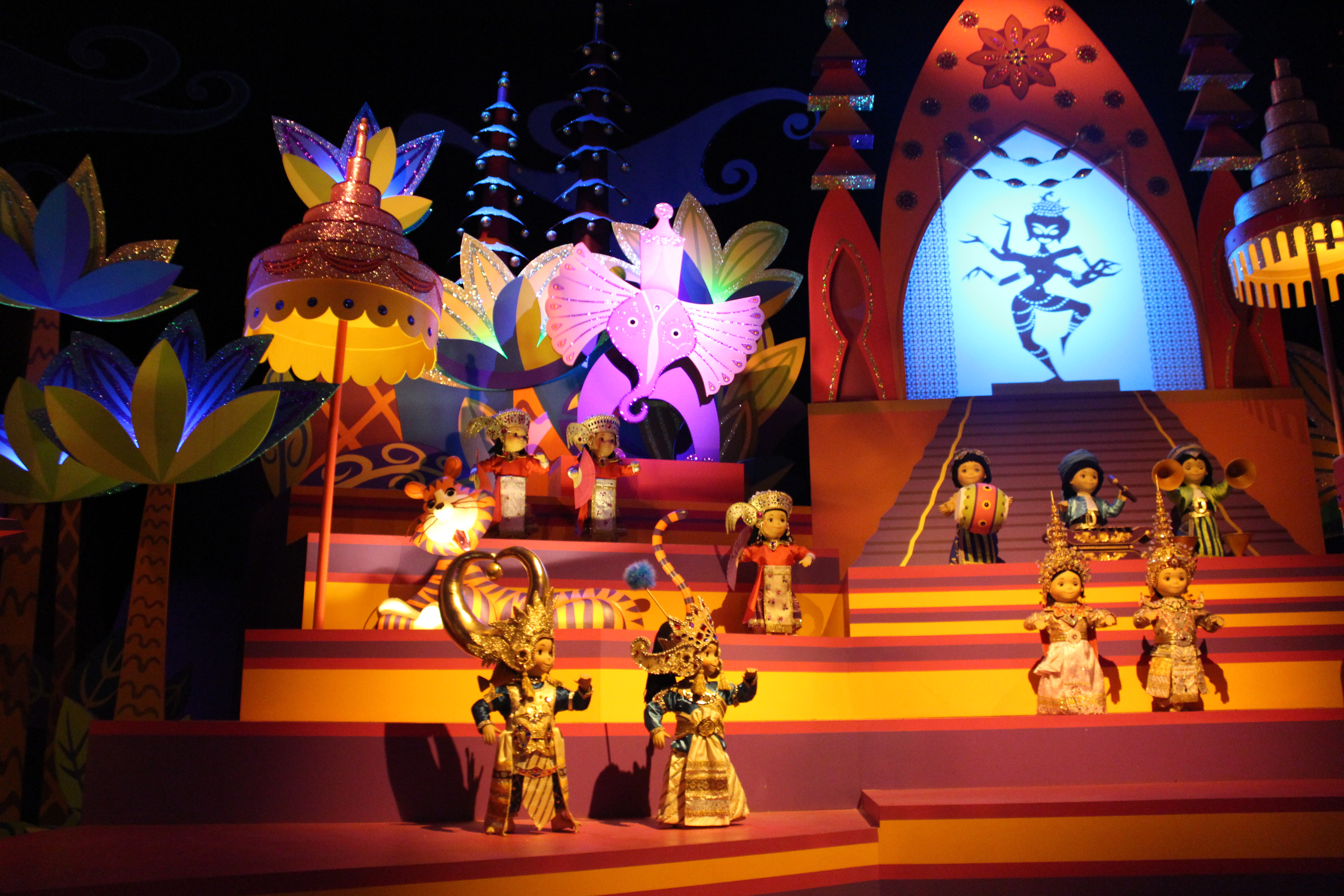 It's a small world at Hong Kong Disneyland, Hong Kong